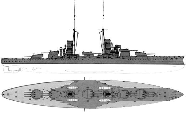 Drawing of Conte di Cavour-class battleships in their original configuration